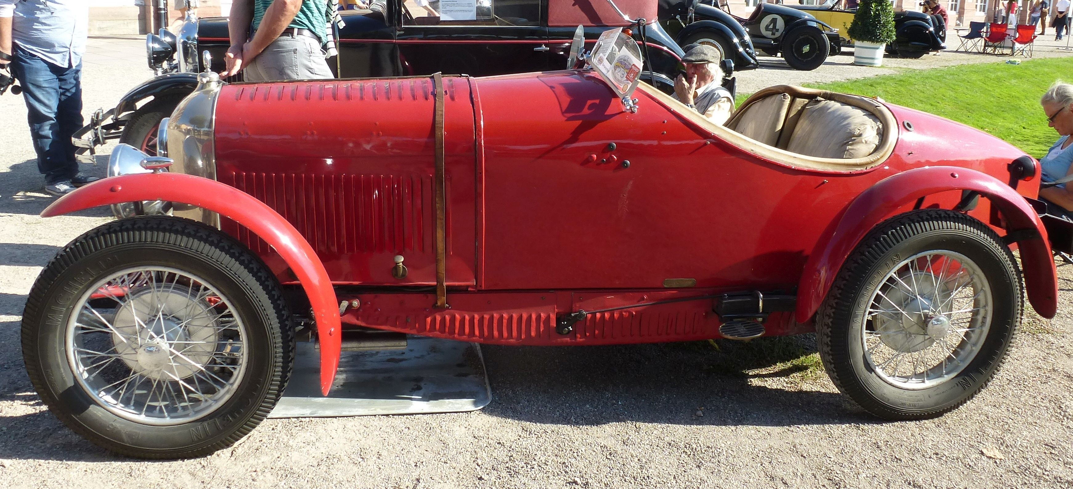 Amilcar Type CGSS Roadster 1926